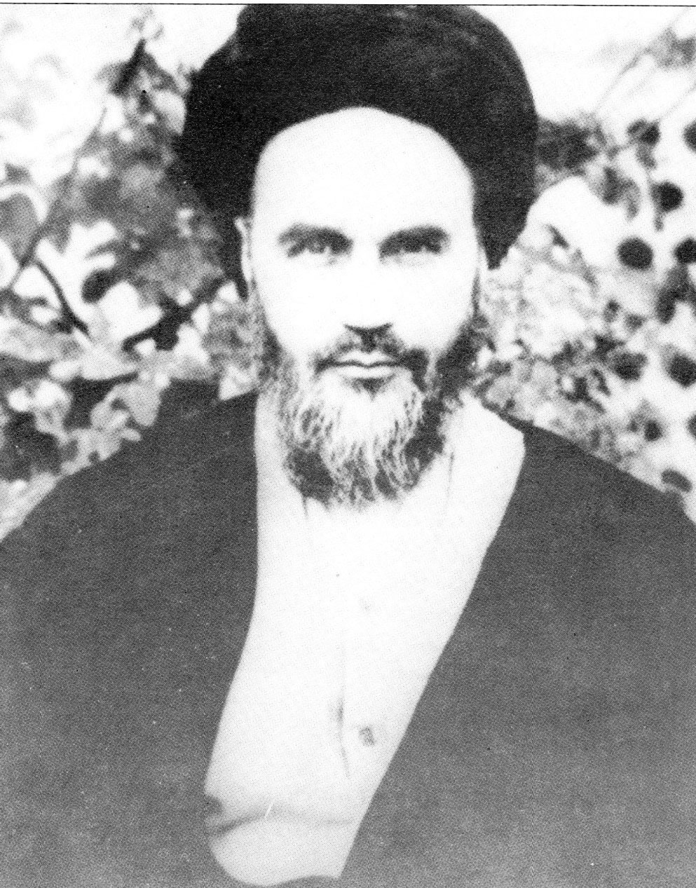 Ruholla Chomeini, 1963